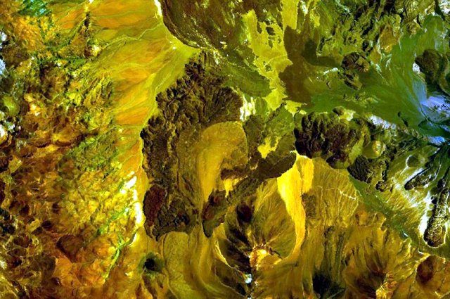 The elongated, dark-colored lava flow complex just left of the center of this NASA Landsat image (with north to the top) is La Negrillar. This cone and lava flow complex (also known as Aguas Perdidas) covers a roughly 16 km area along the SW margin of the Atacama basin. The basaltic-andesite volcanic field, distinct from El Negrillar (north of Socompa), lies WSW of Socompa volcano, the source of the lava flows at the far middle-right. Part of the massive debris avalanche from Socompa volcano fills the upper right part of the image.